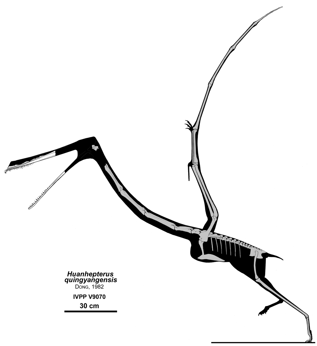 Skeletal reconstruction of Huanhepterus quingyangensis.